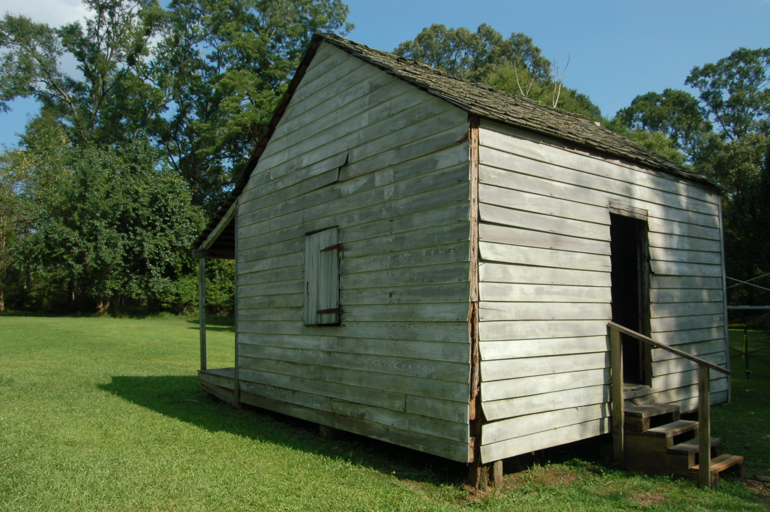 Slave cabin at at Audubon State Historic Site near St. Francisville, Louisiana.